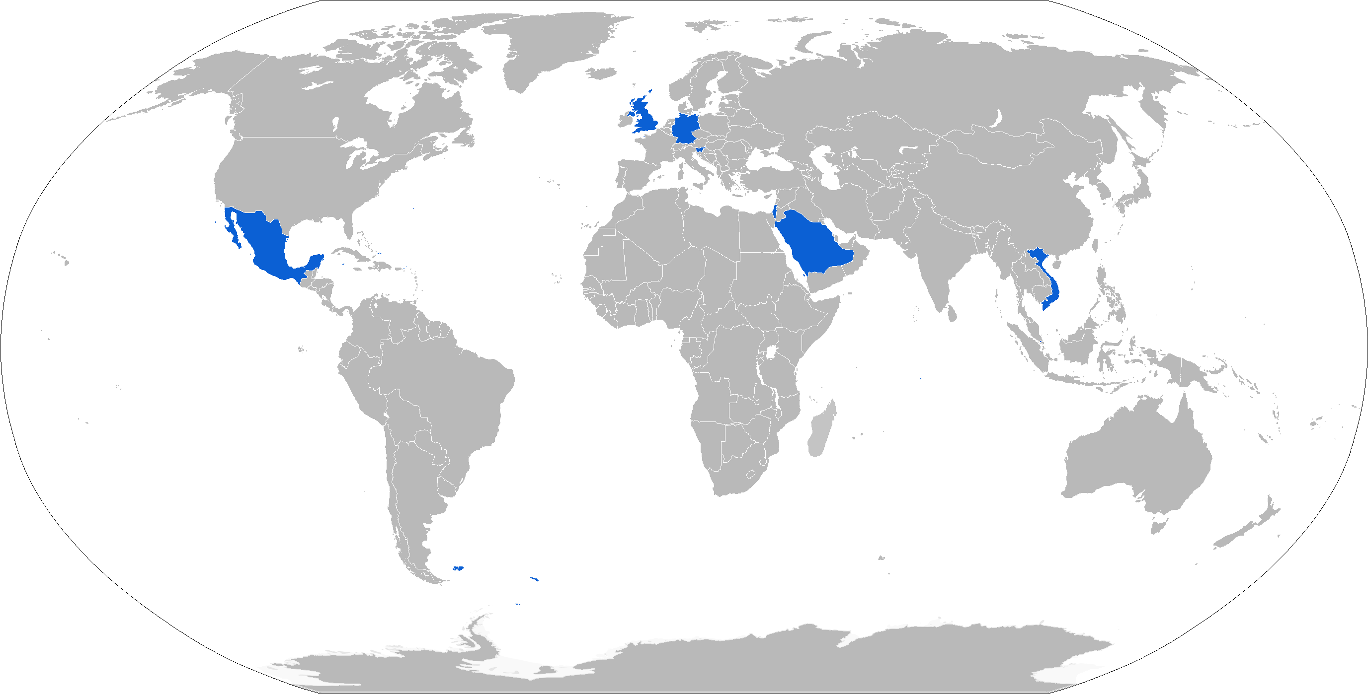 Map with MATADOR operators in blue